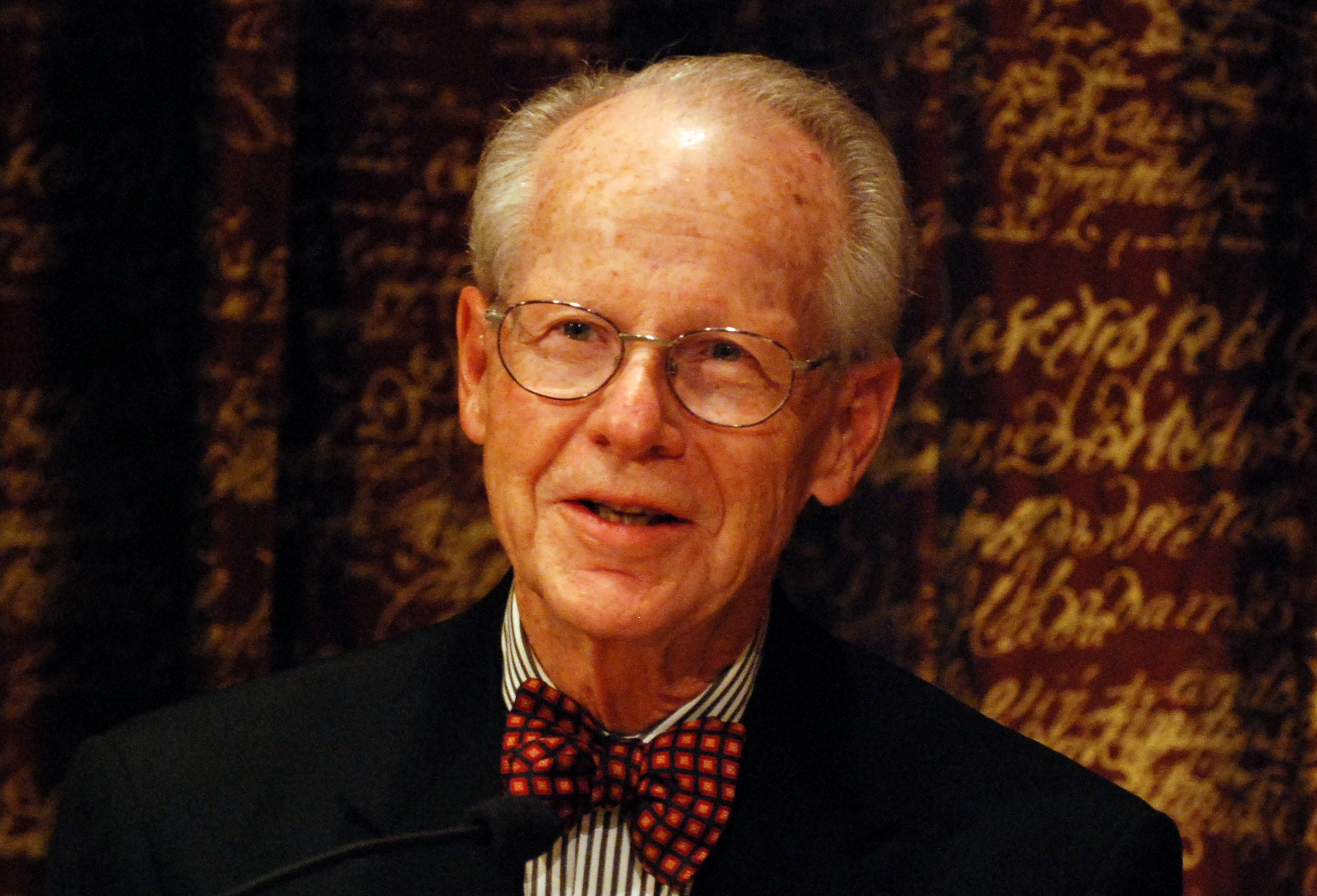 Press conference with the laureates of the memorial prize in economic sciences 2009 at the KVA: Oliver E. Williamson.